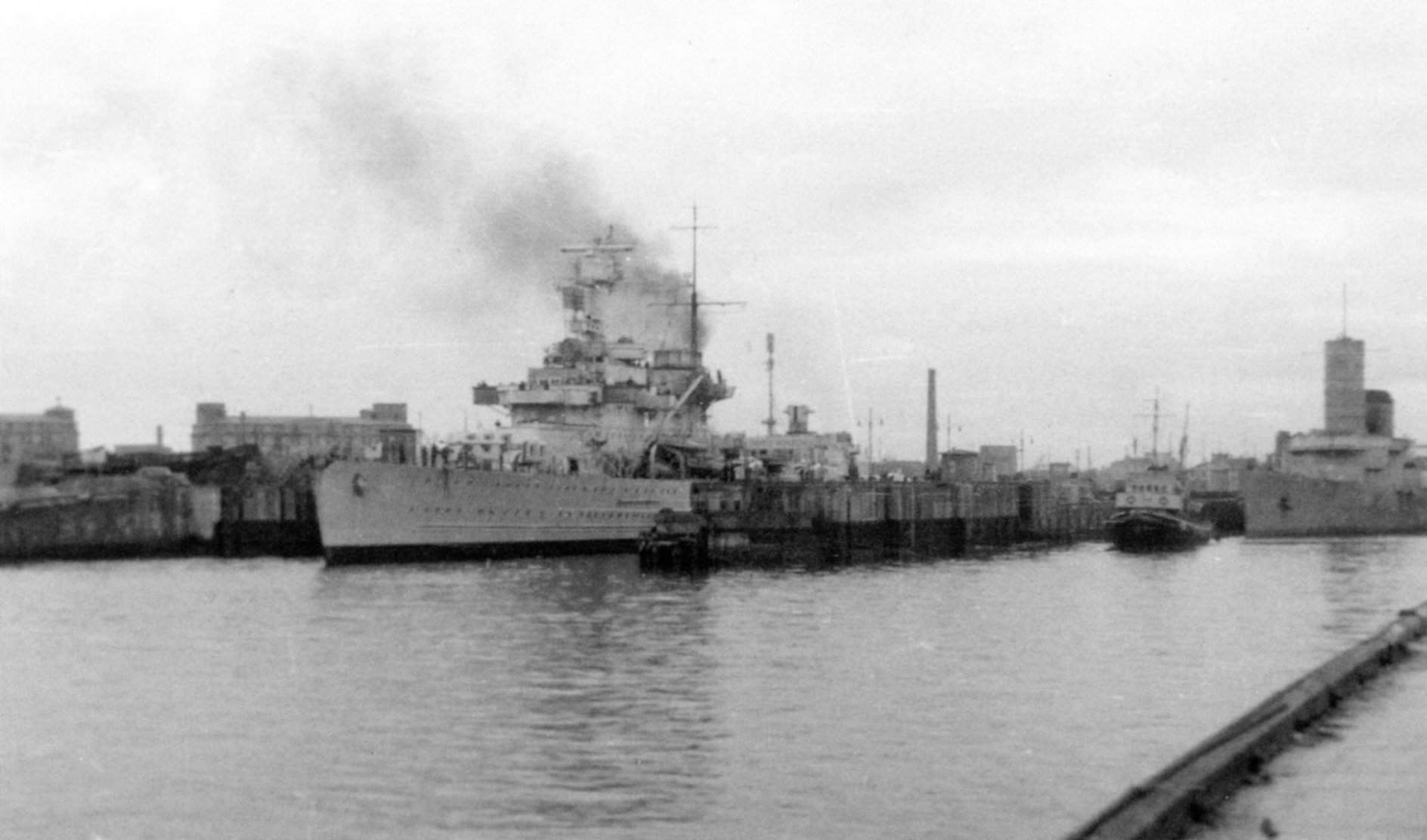 The former German light cruiser Nürnberg under the flag of vice-admiral Yu.F. Rall' and target ship Hessen after being ceded to the Soviet Union under the terms of the Potsdam Conference, 2 Jan 1946.